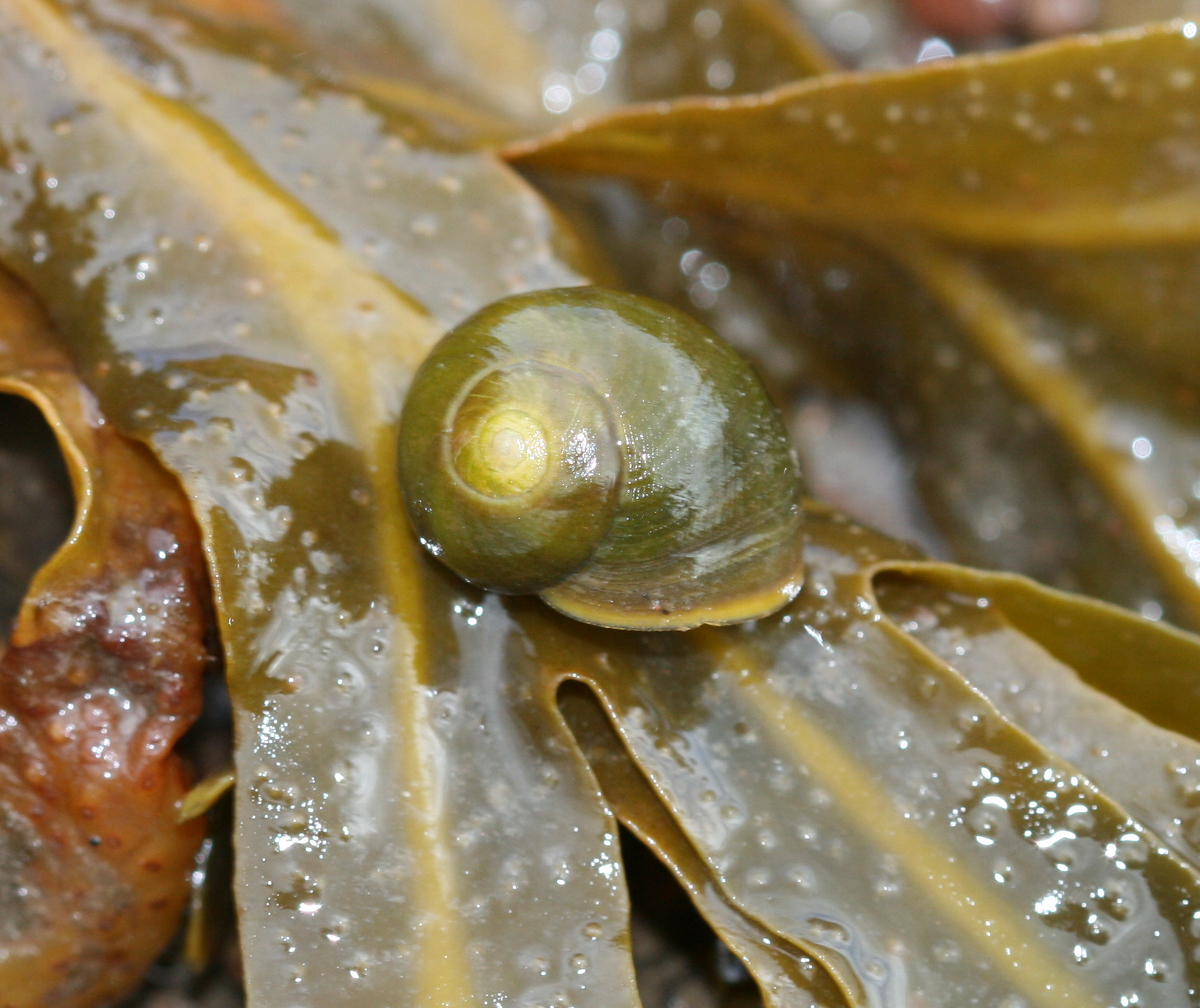 Flat Periwinkle (Littorina obtusata); Barns Ness, Dunbar, East Lothian, Scotland